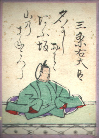 A portrait of Sanjo U-daijin; illustration from an uta-garuta playing card for Hyakunin Isshu, created in the Edo period.